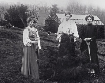 Suffragettes Annie Kenney, Mary Blathwayt and Emmeline Pankhurst, Eagle House, Batheaston 1910. This picture was taken by Colonel Linley Blathwayt and was stored on glass negatives. The Blathwayt's home of Eagle House way the home of Linley, Emily and Mary Blathwayt who all actively supported the suffragette cause. Nearly all the prominient UK suffragettes stayed with them and these photos and dozens of trees were planted to commemorate their visits. Col. Linley Blathwayt took these pictures between 1908 and 1912. He died in 1919. The pictures are made available in larger formats by .